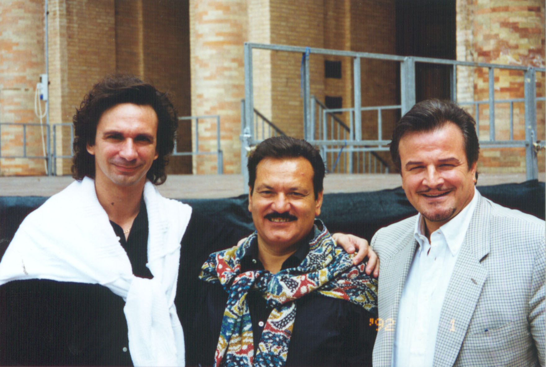 Three Italian great tenors Fabio Armiliato,Salvatore Fisichella and Pietro Ballo. All three tenors heve been awarded with Beniamino Gigli award